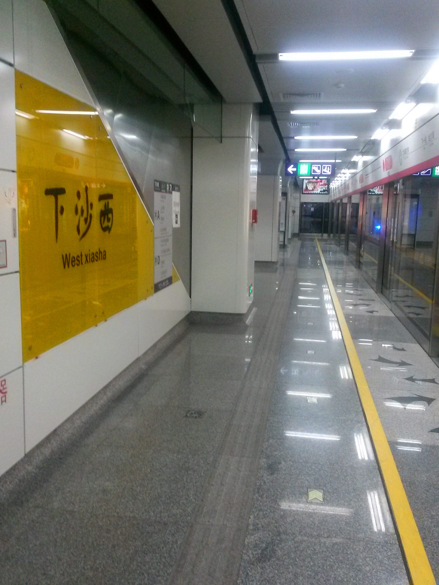 West Xiasha Station